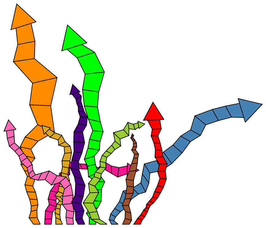 Application of figures realized with CLACL.